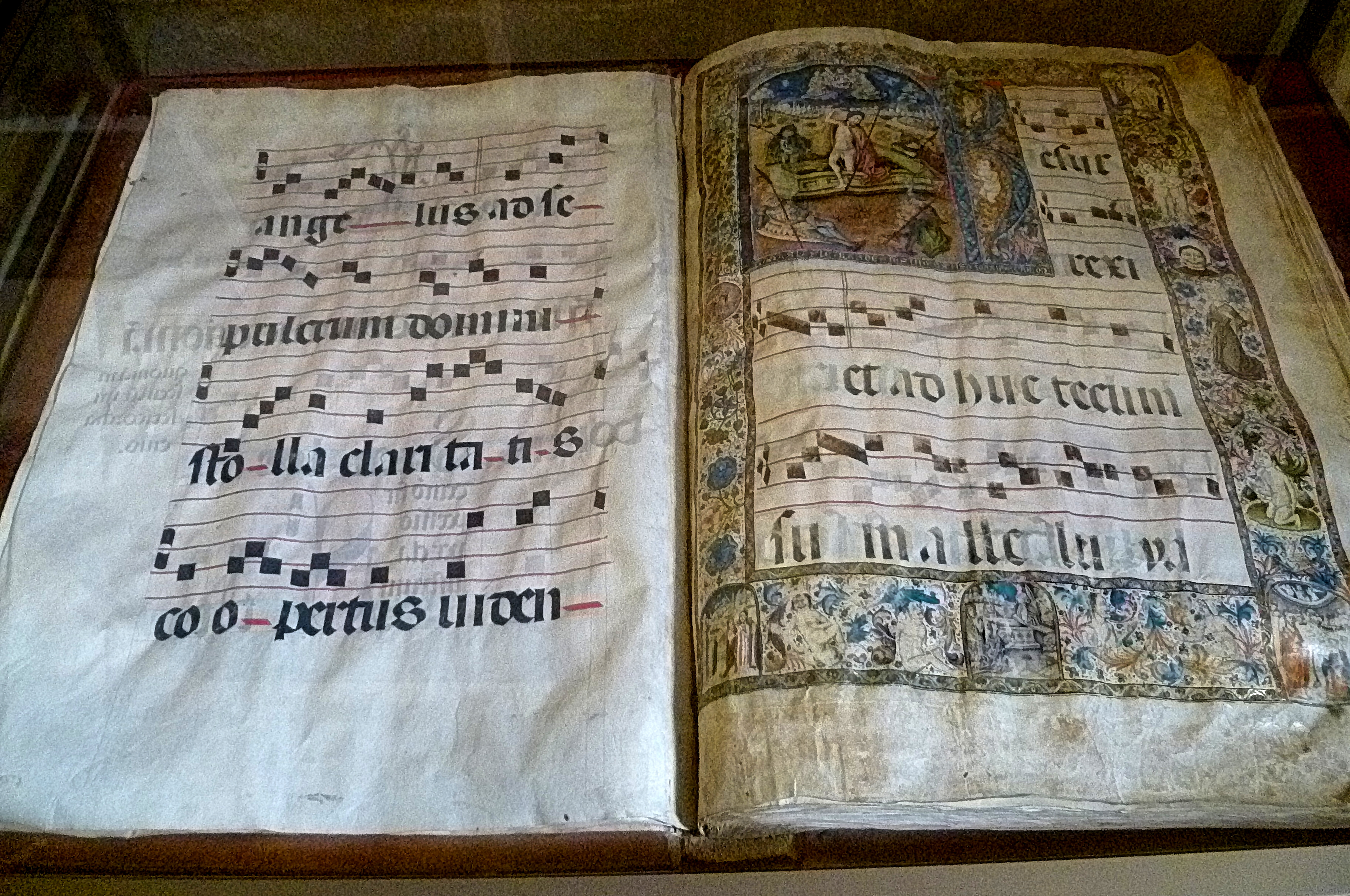 "Illuminated choirbook : Resurrection", parchment by Juan de Carrión (15th century); Museum of the Cathedral of Ávila, Spain